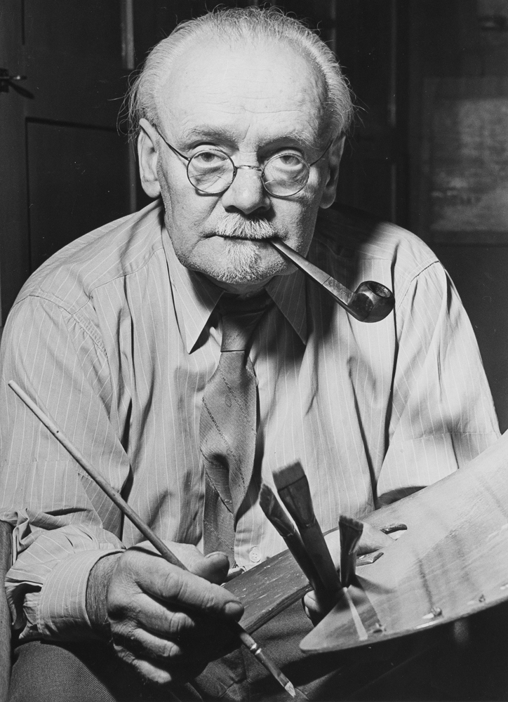 A portrait of the Marine Artist Fritz W. Schulz 1955